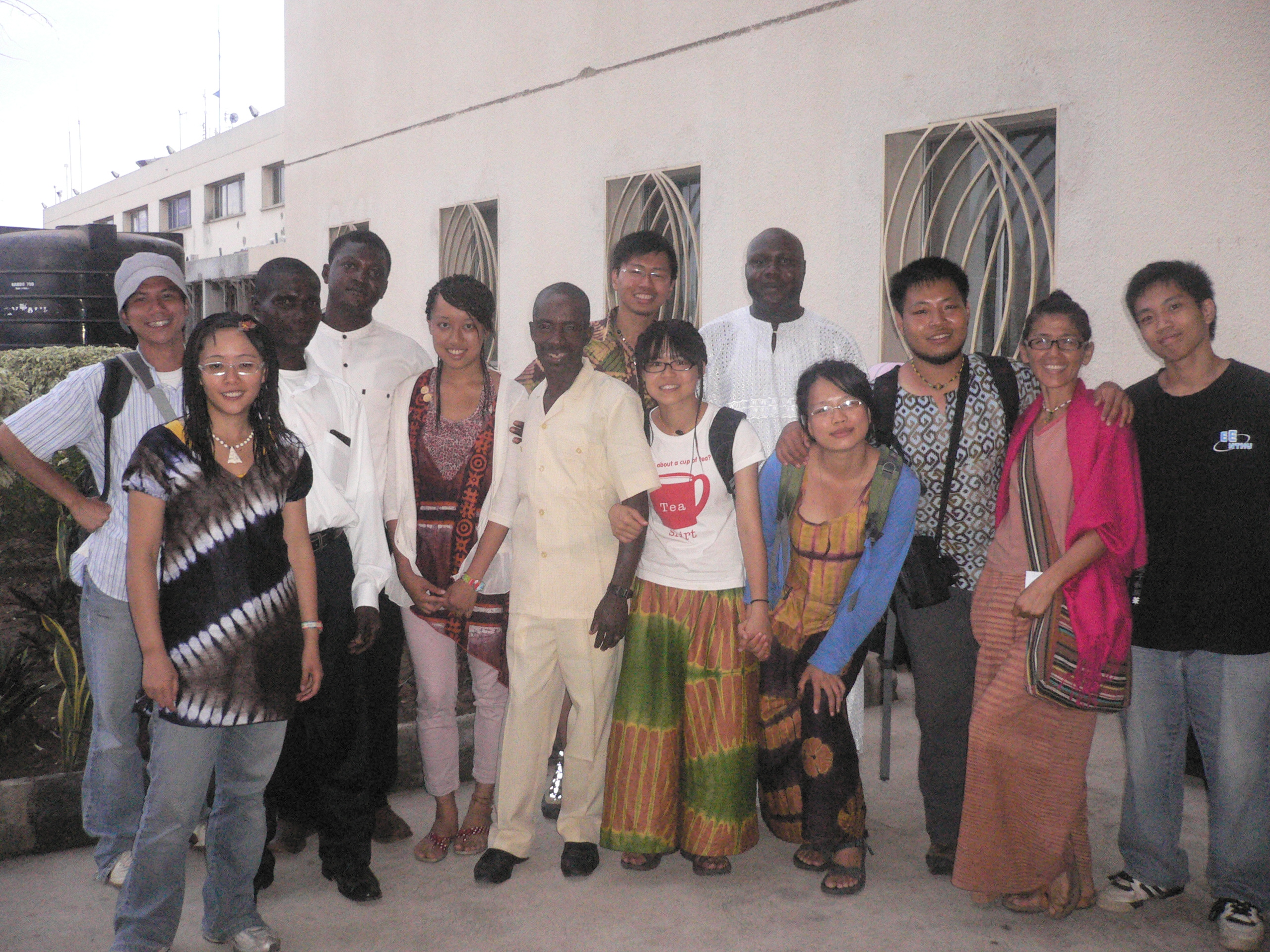 This is an image of an extended Ghanaian Chinese family in South Ghana.